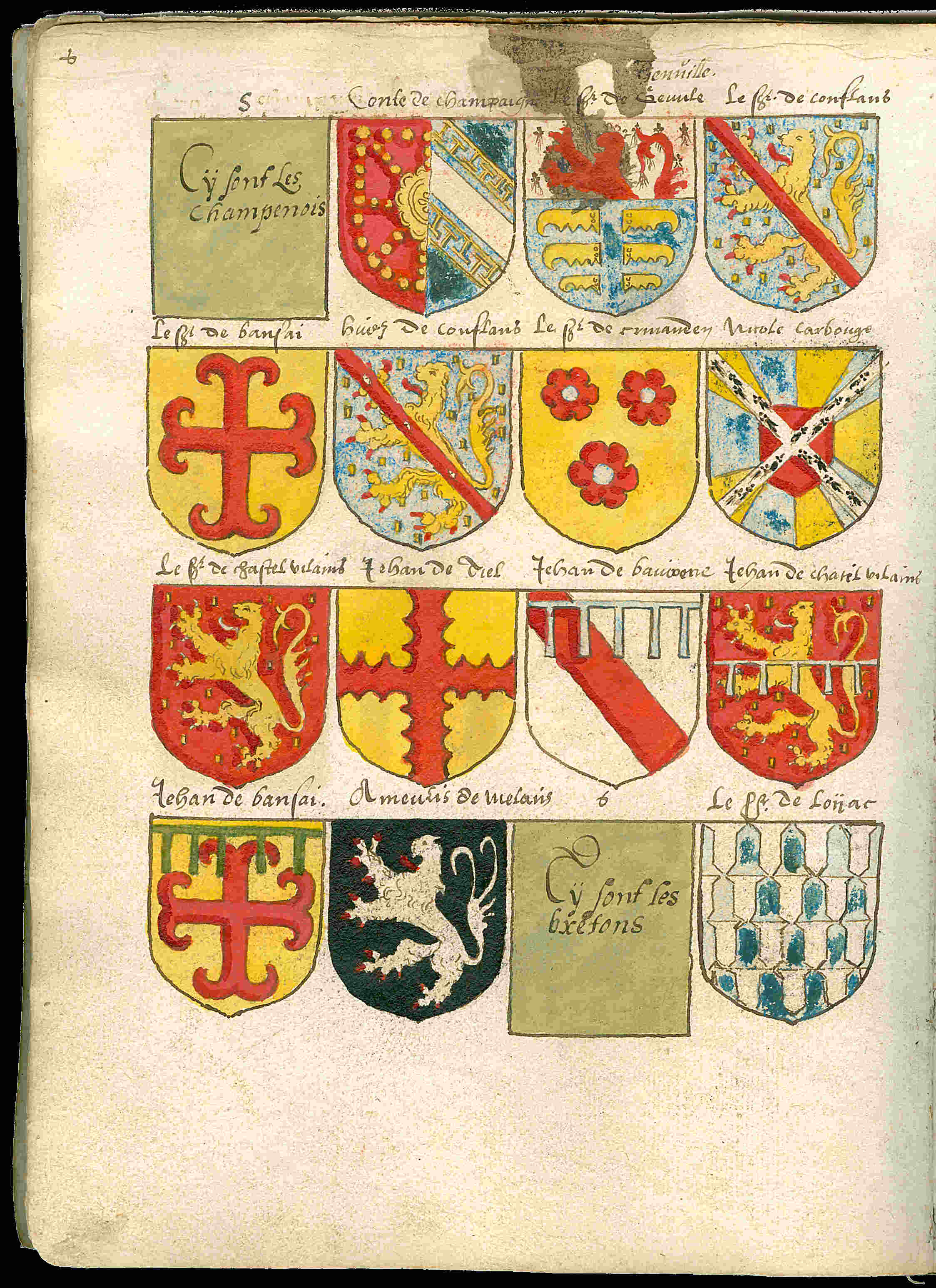 Page 06 from a copy of the Beyeren armorial / Wapenboek Beyeren from ca. 1600. The original Beyeren armorial from 1405 can be viewed at the website of the KB